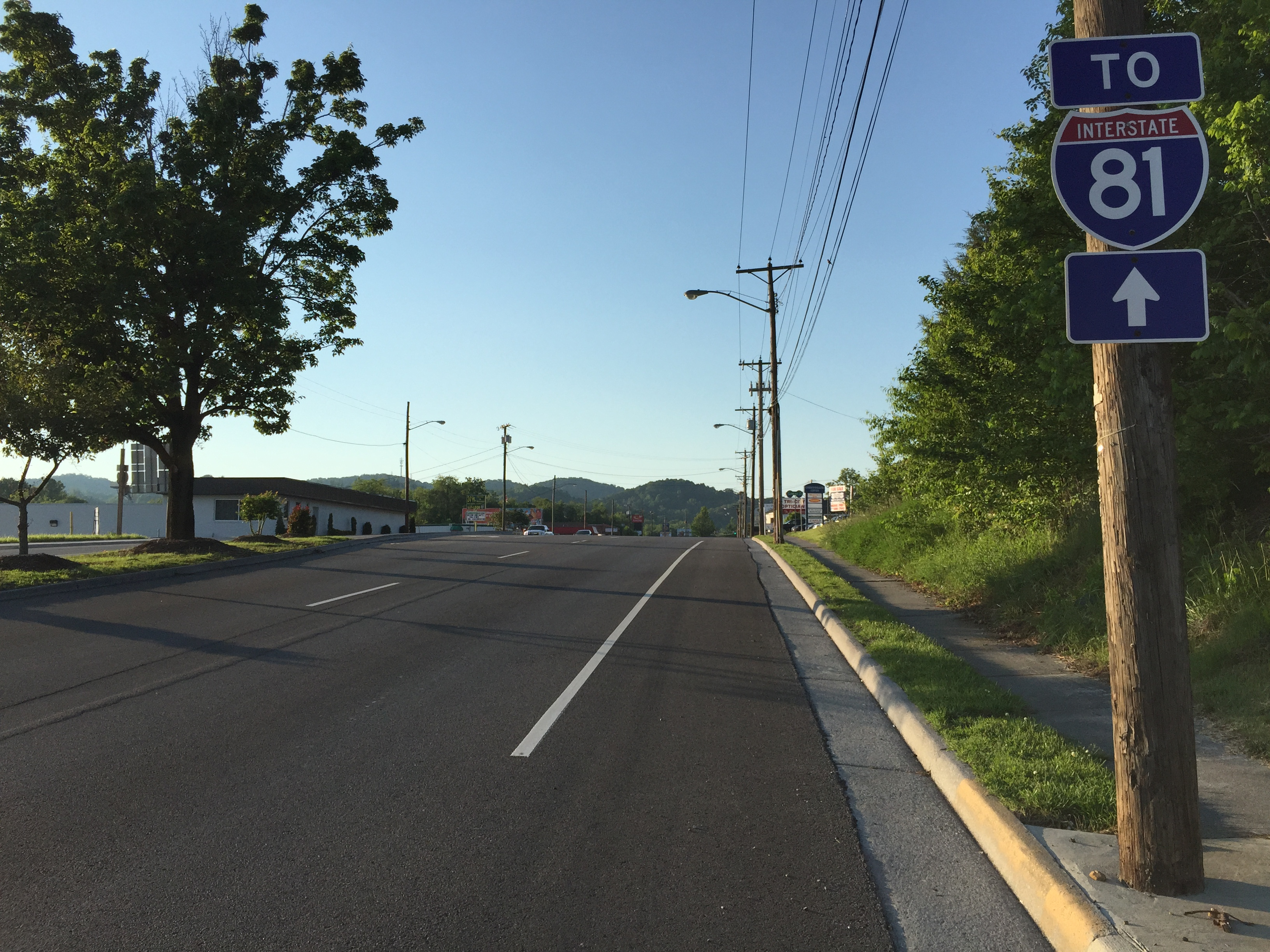 View north along Virginia State Route 381 (Commonwealth Avenue) at U.S. Route 11 and U.S. Route 19 (Euclid Avenue) in Bristol, Virginia